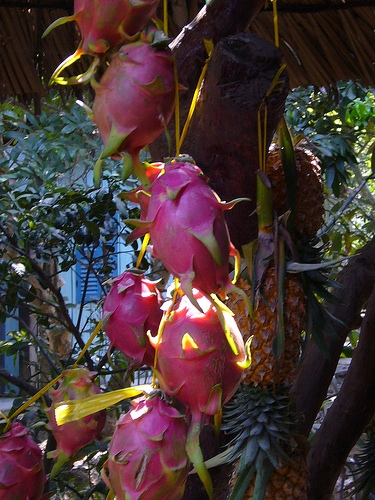 Dragon fruit, Vietnam